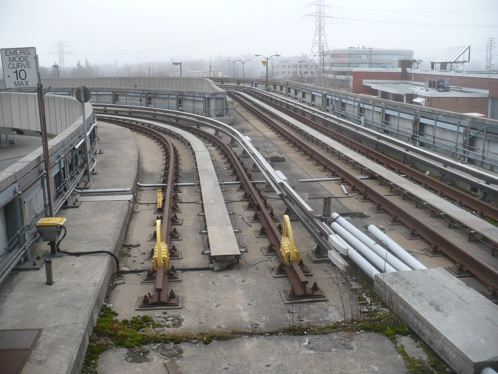 Kennedy SRT station. This original design was that trains would have looped at the station to return in the opposite direction. Since the trains are double ended, they can simply go in the reverse direction.